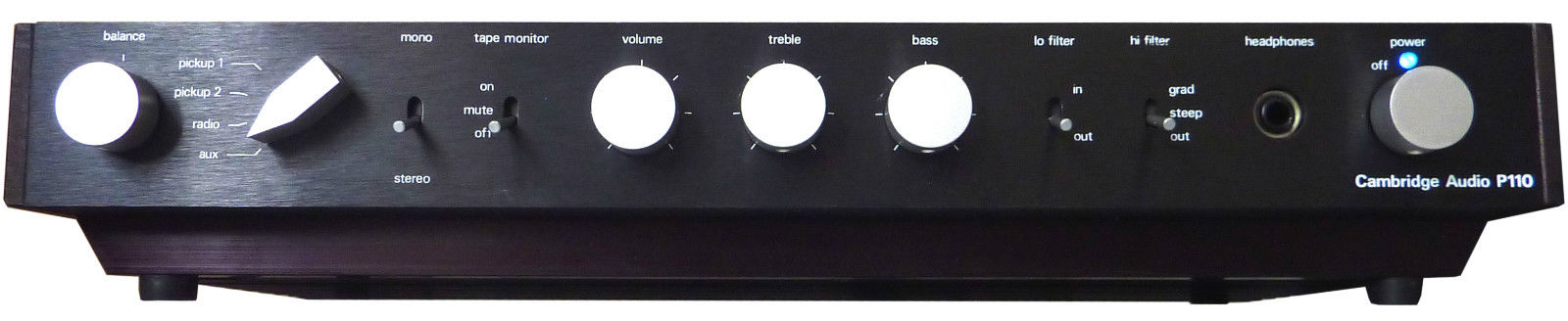 Cambridge Audio P110